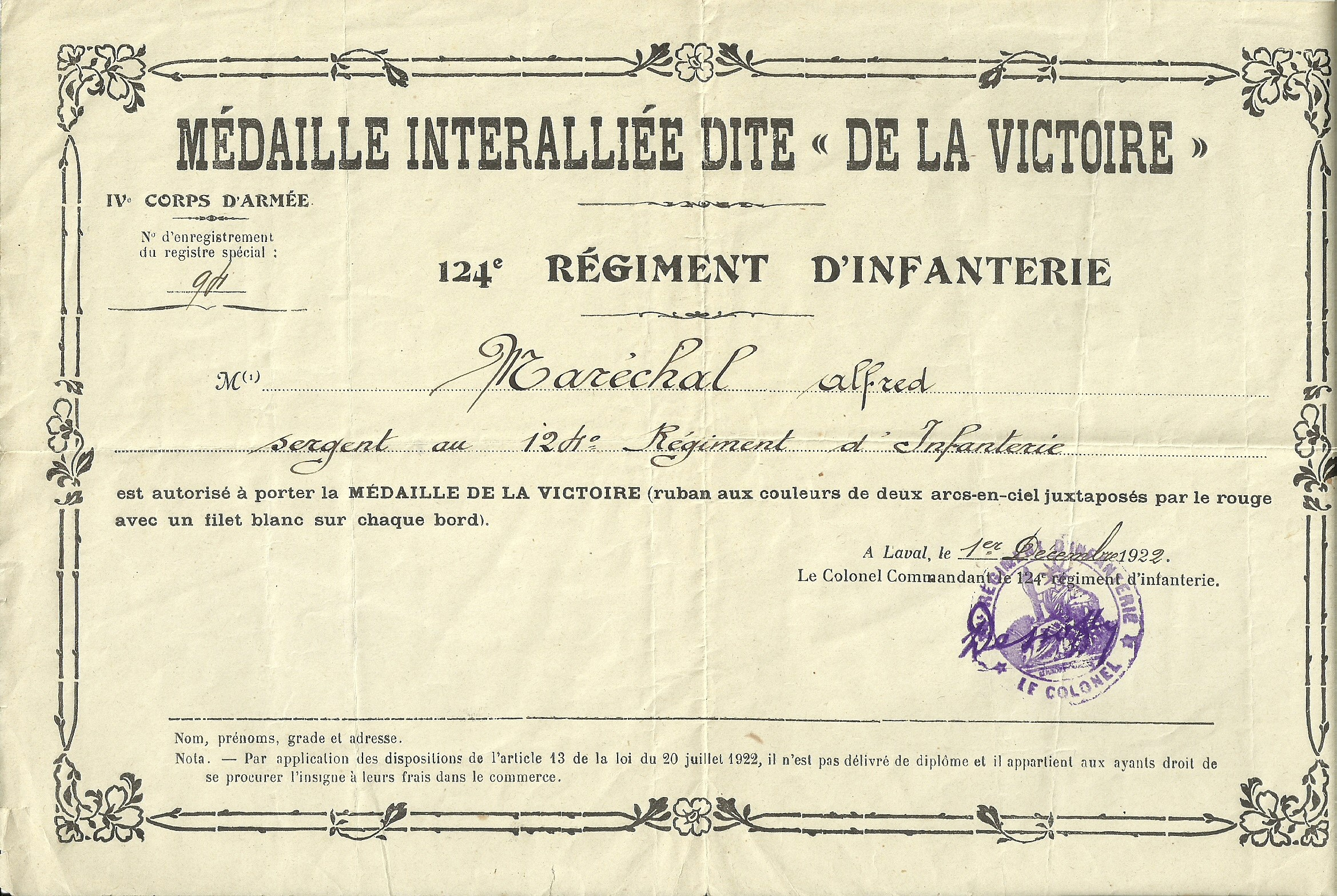 Attestation of 1914–1918 Inter-Allied Victory medal's receipe.